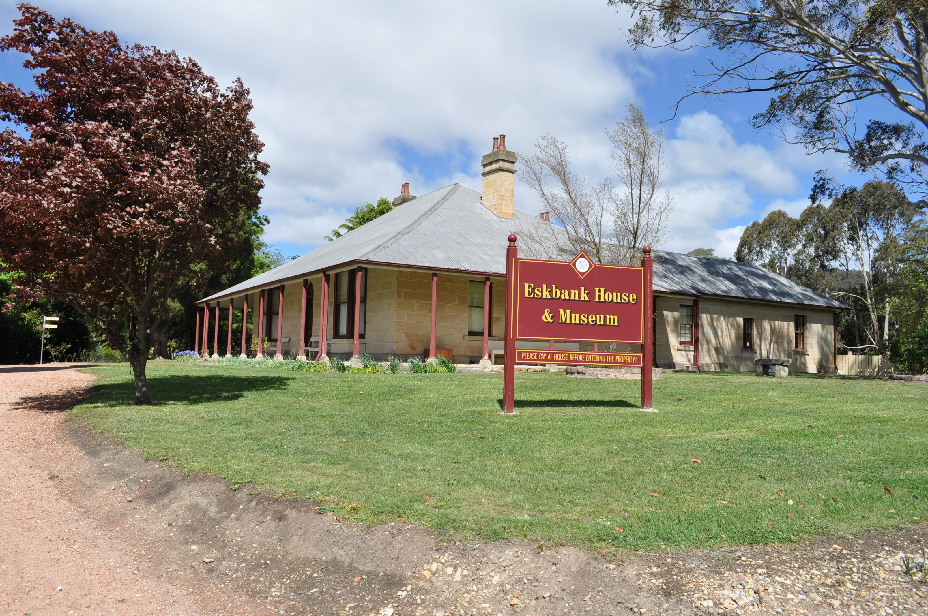 Eskbank House and sign from the carpark. Eskbank house and its grounds are listed on the Register of the National Estate.